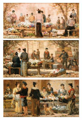 Scènes De Marché by Auguste Herst. Three paintings. Sotheby's Lot 31, 25 March 2014, Paris.